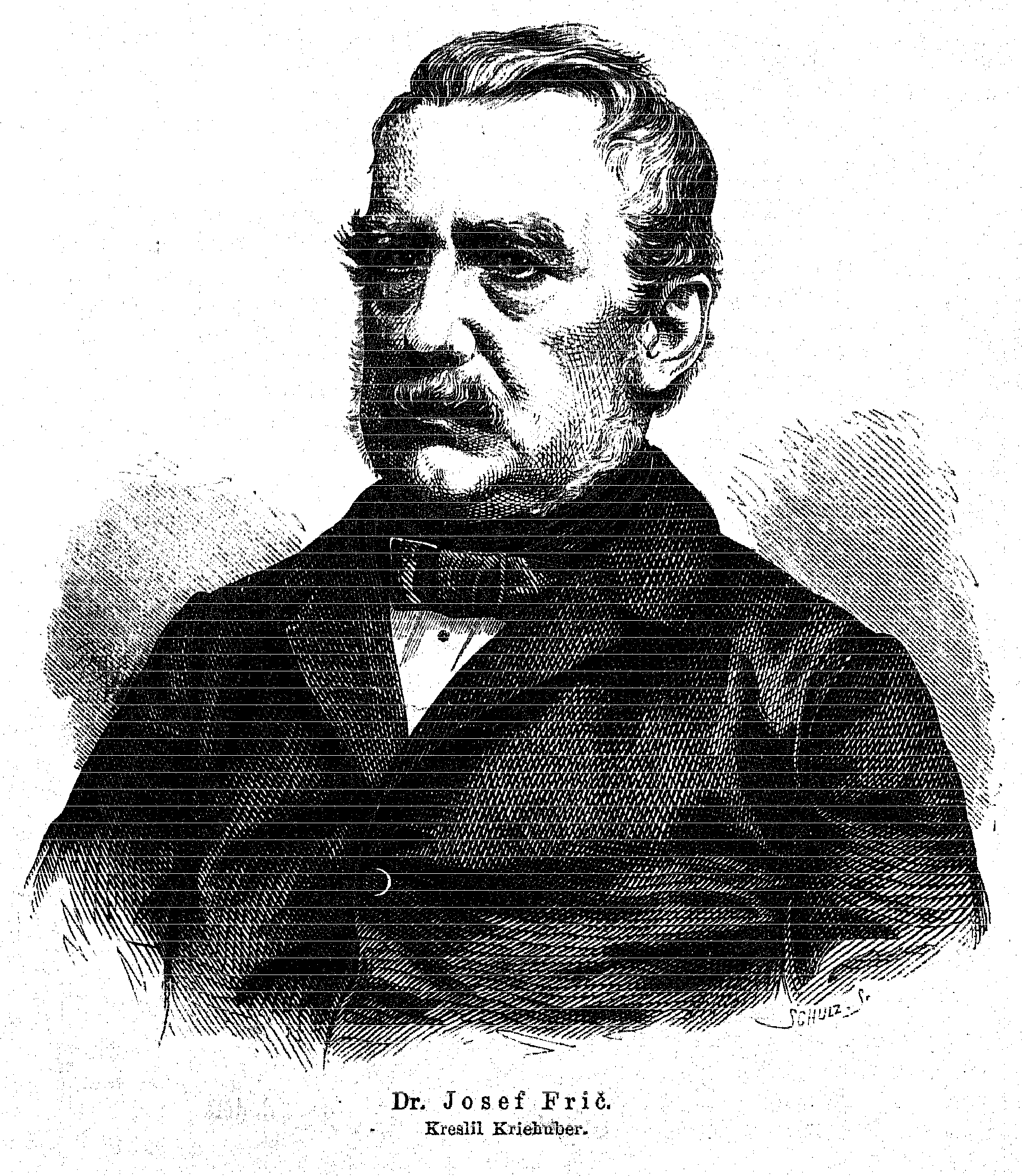 Portrait of Josef František Frič (1804 - 1876), Czech lawyer and politician.